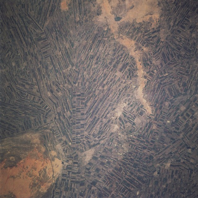 Gezira Plain from space, November 1997